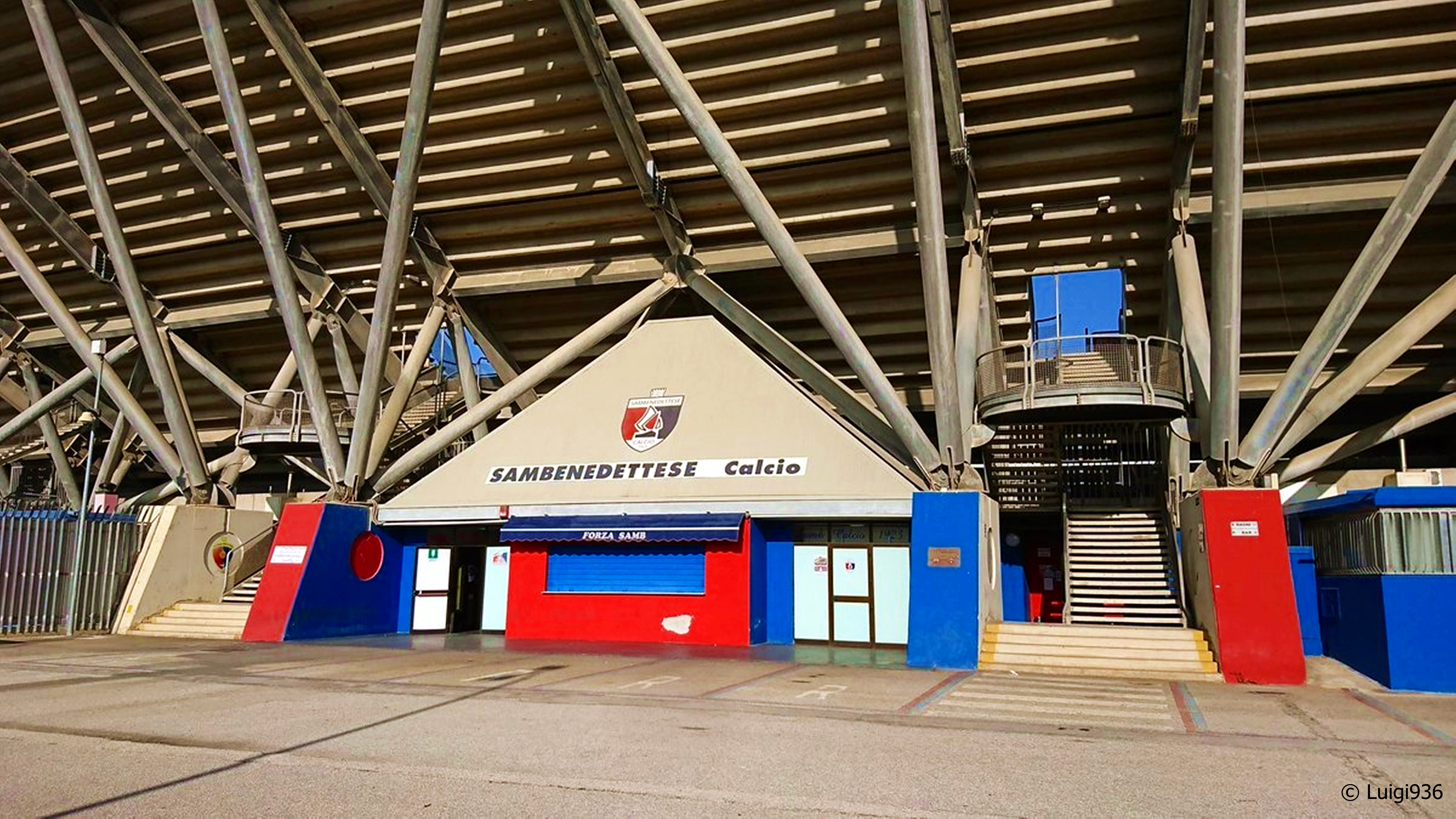 San Benedetto del Tronto, Riviera delle Palme Stadium, west tirbuna the entrance to the Sambenedettse Calcio offices